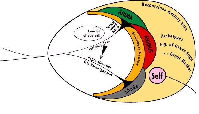 Graphical model of Carl Jung's theory- English version